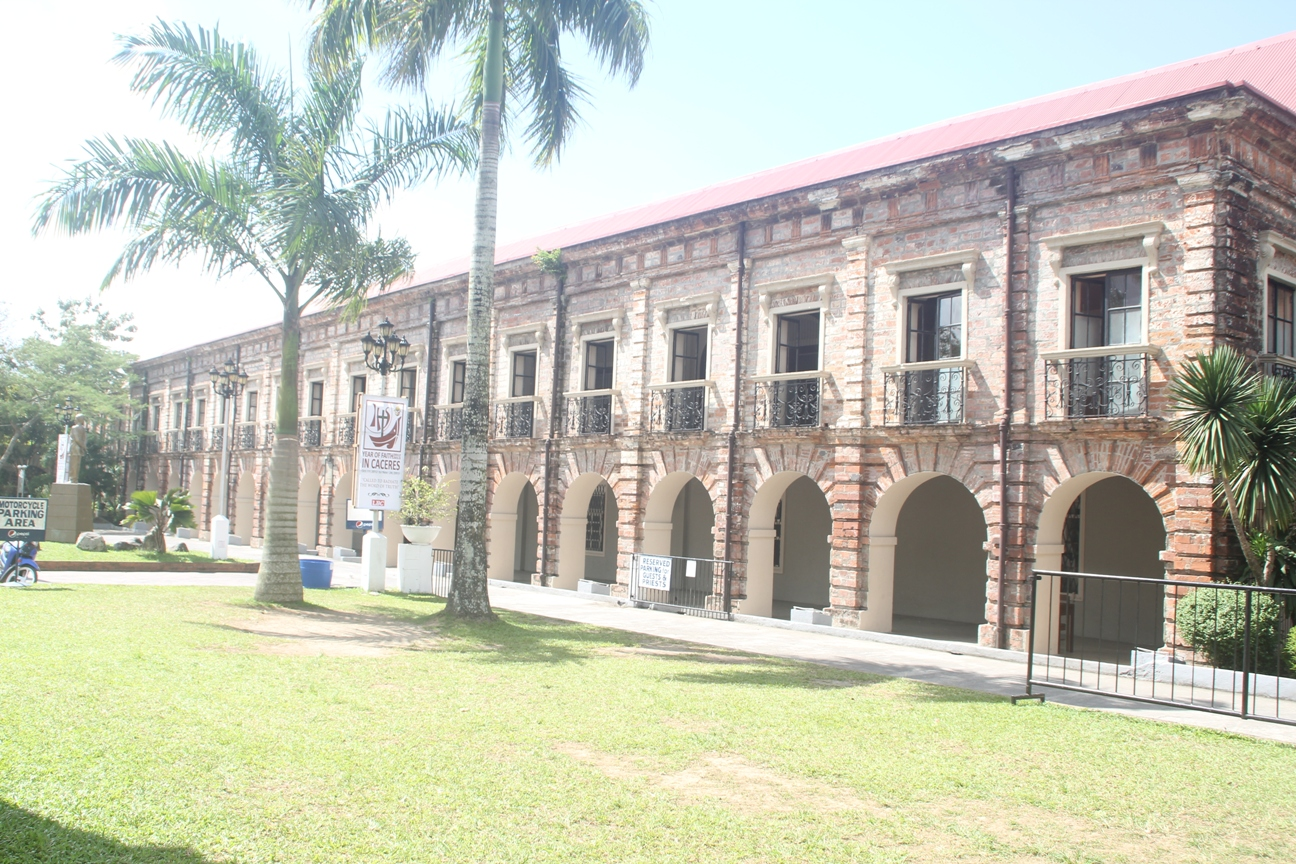 Holy Rosary Minor Seminary